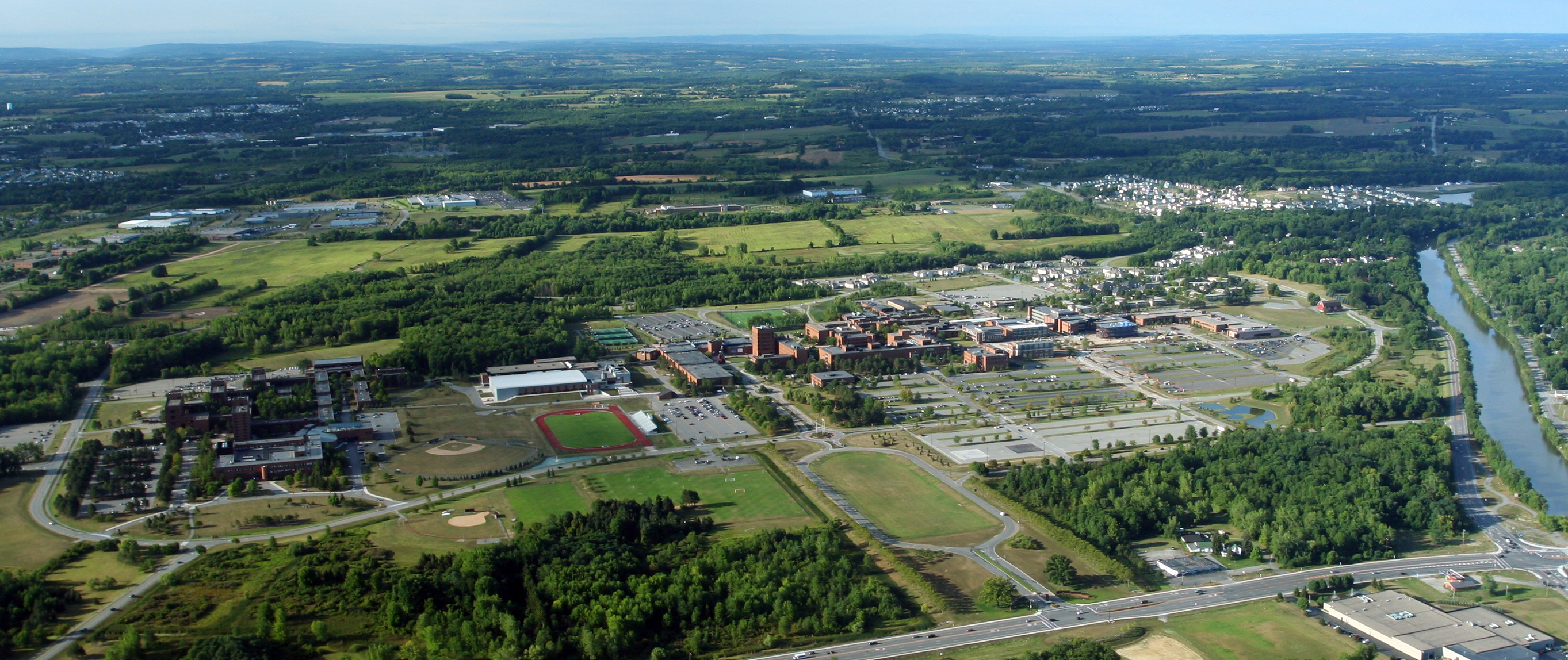 An aerial image of the RIT campus in New York state, USA as taken on August 17, 2007. Self-made image submitted under the Creative Commons Attribution-ShareAlike 3.0 License by Christopher Tomkins-Tinch (talk).